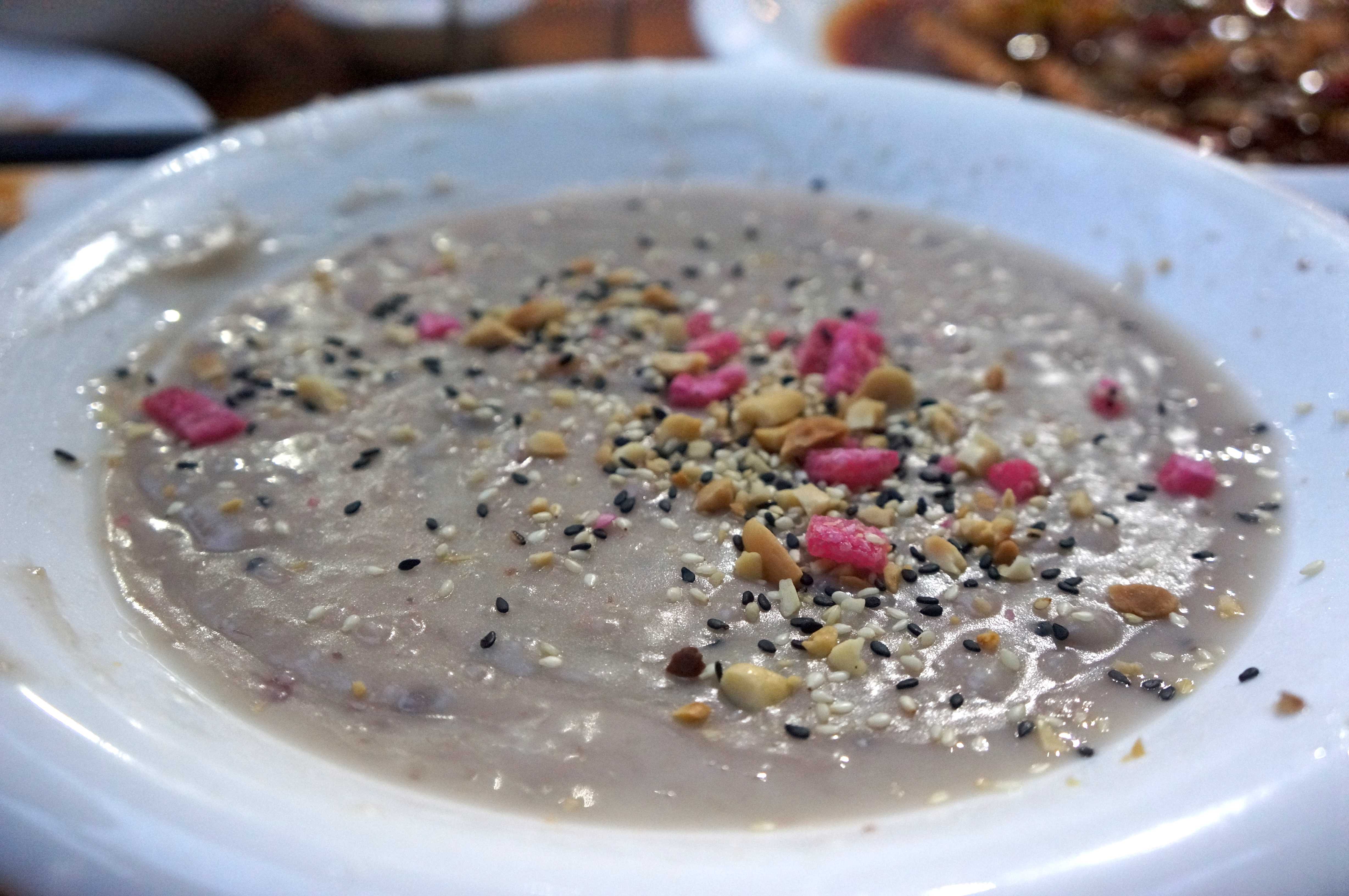 An image of taro purée, a traditional Fujianese dessert, topped with roasted sesame seeds, candied ginko, and melon seeds.